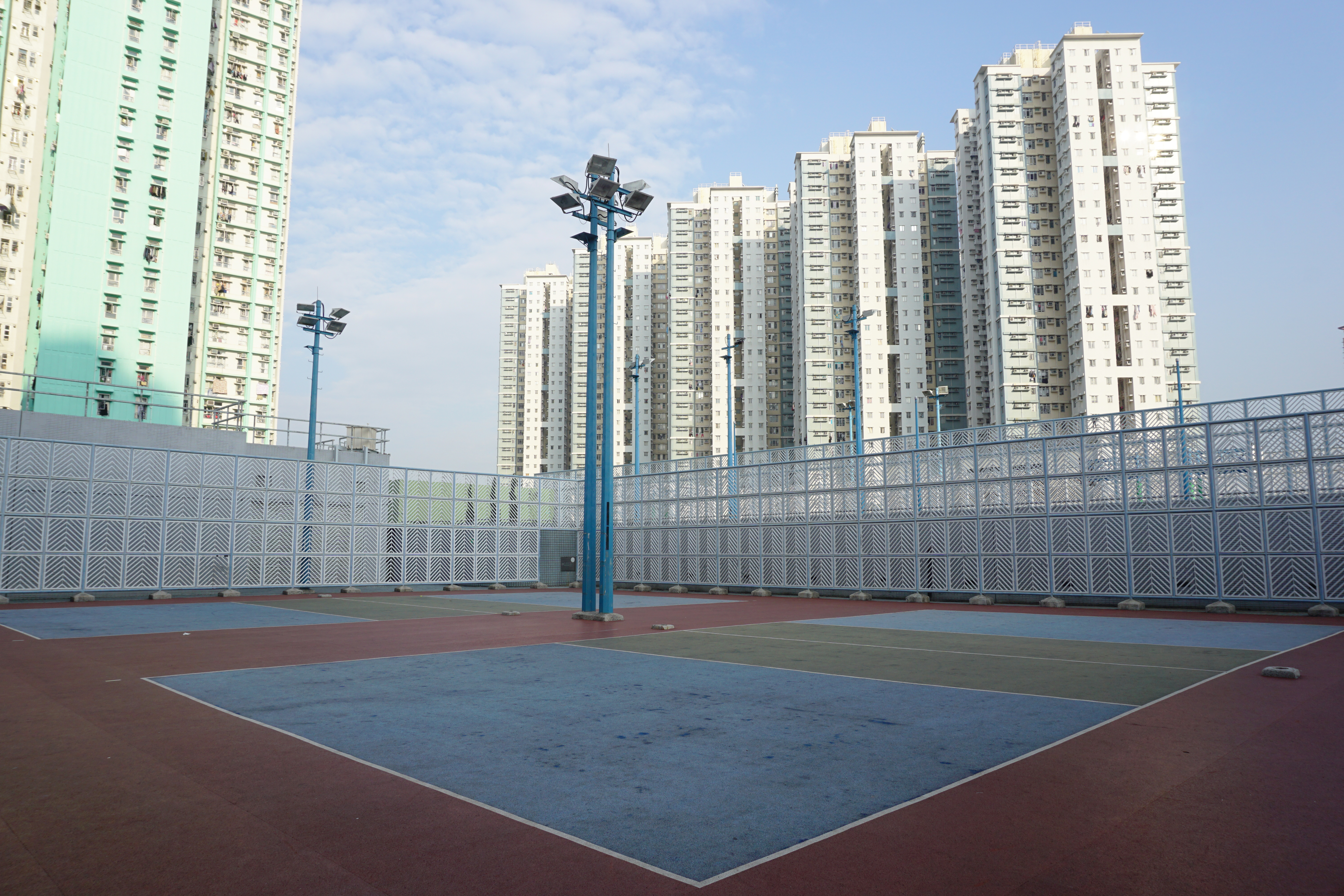 Tin Heng Estate in Tin Shui Wai, Hong Kong.